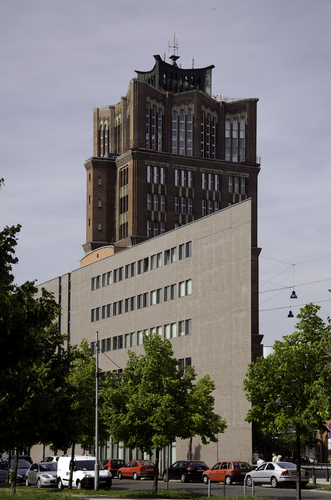 Borsigturm in Berlin-Tegel.